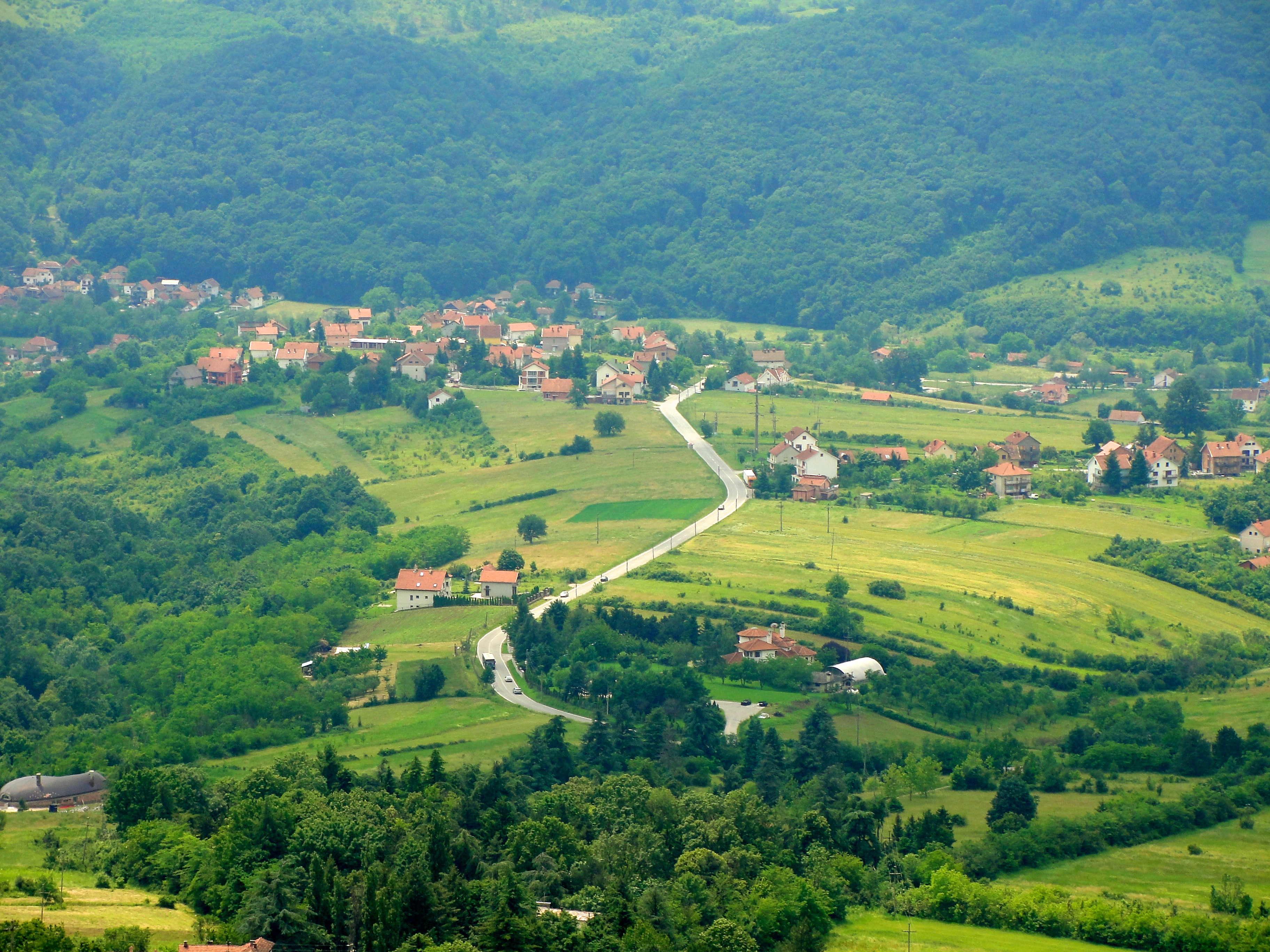 Another bike ride up Avala mountain. Wonderful view.